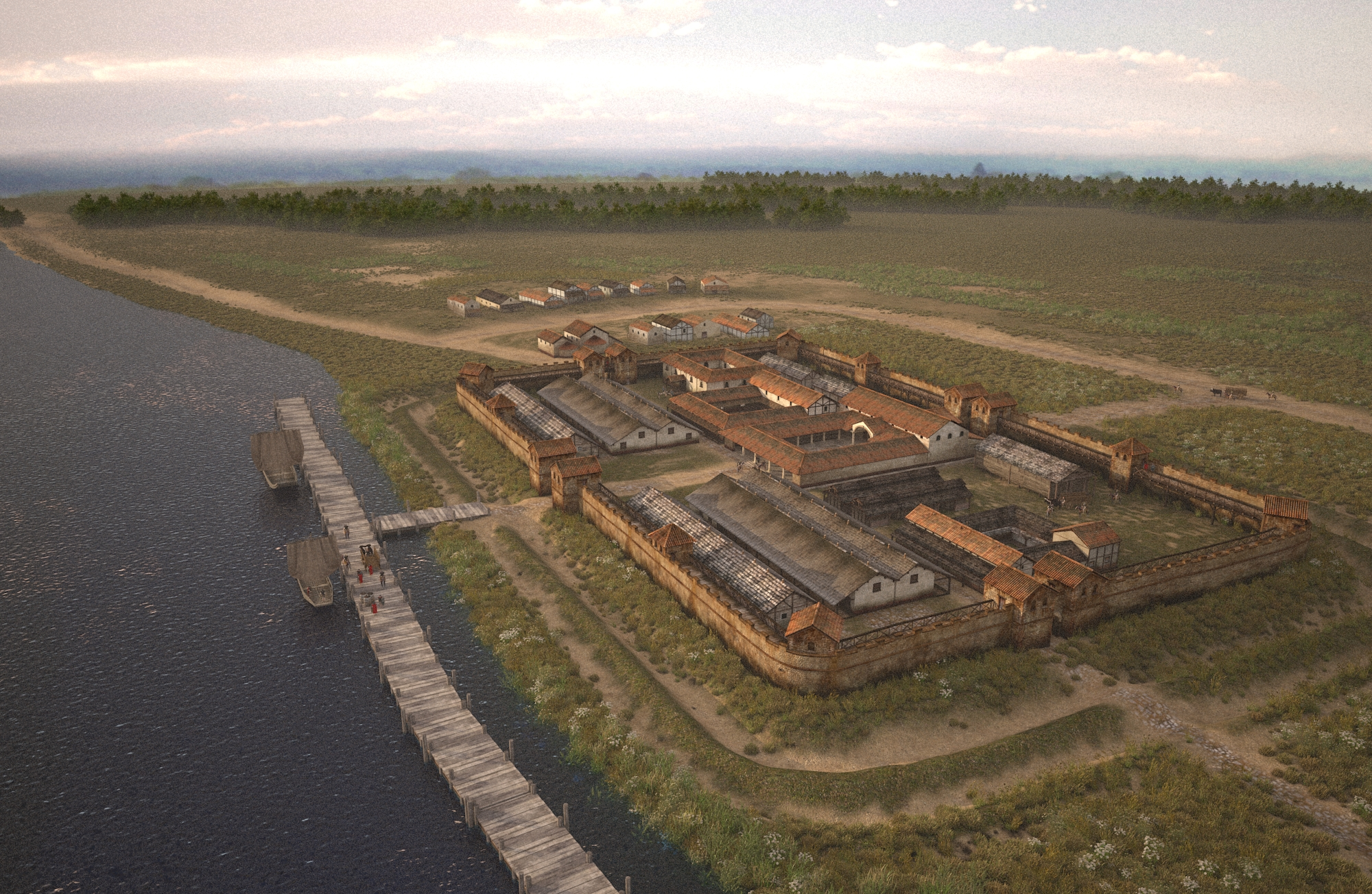 Artist impression of the Roman castellum Nigrum Pullum in Zwammerdam on the bank of the river Rhine. In the background the vicus (civil settlement) is seen.